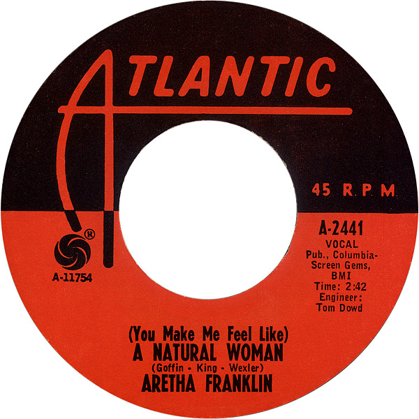 "(You Make Me Feel Like) A Natural Woman" by Aretha Franklin; A-side label of US vinyl release